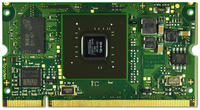 NVIDIA Tegra T2 based Embedded Computer Module in SoDIMM format